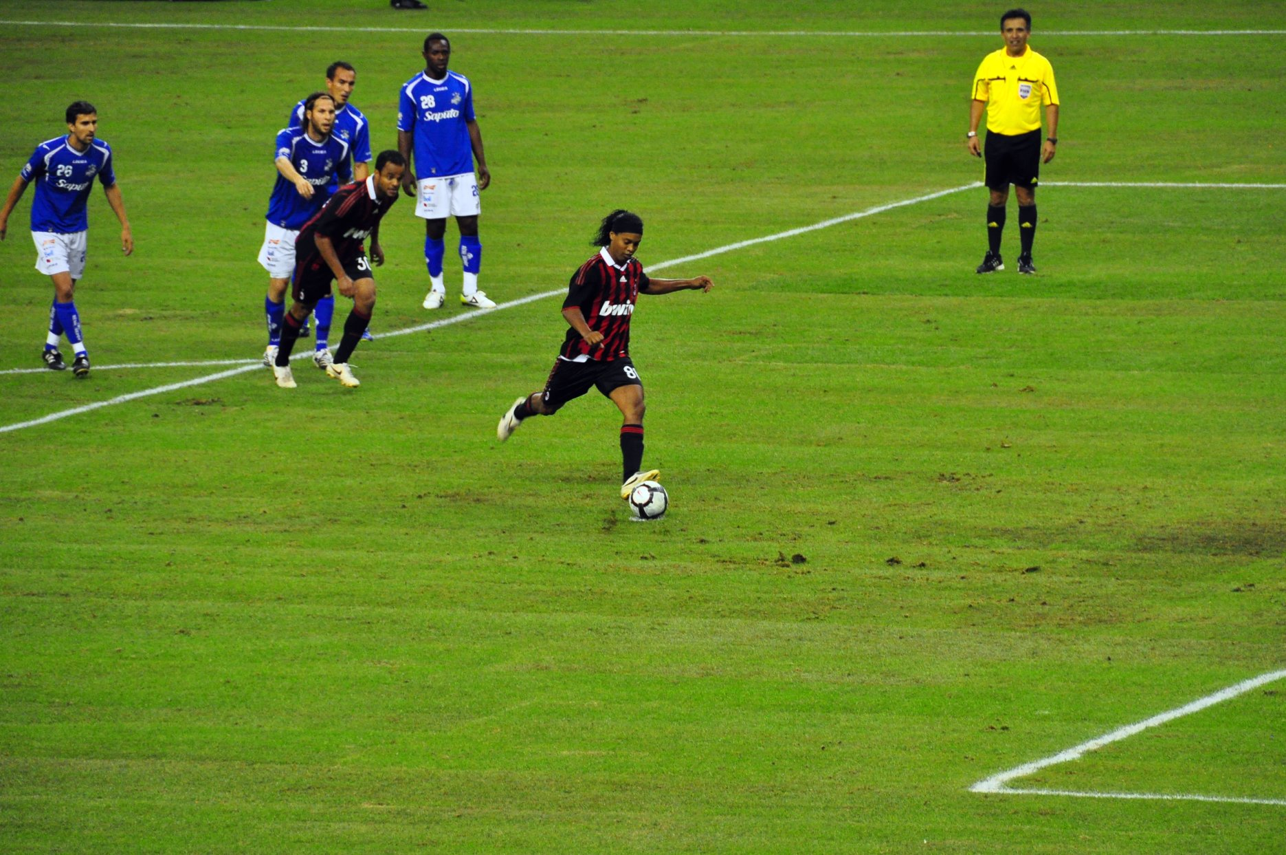 Penalty by Ronaldinho, friendly match Montreal Impact-AC Milan